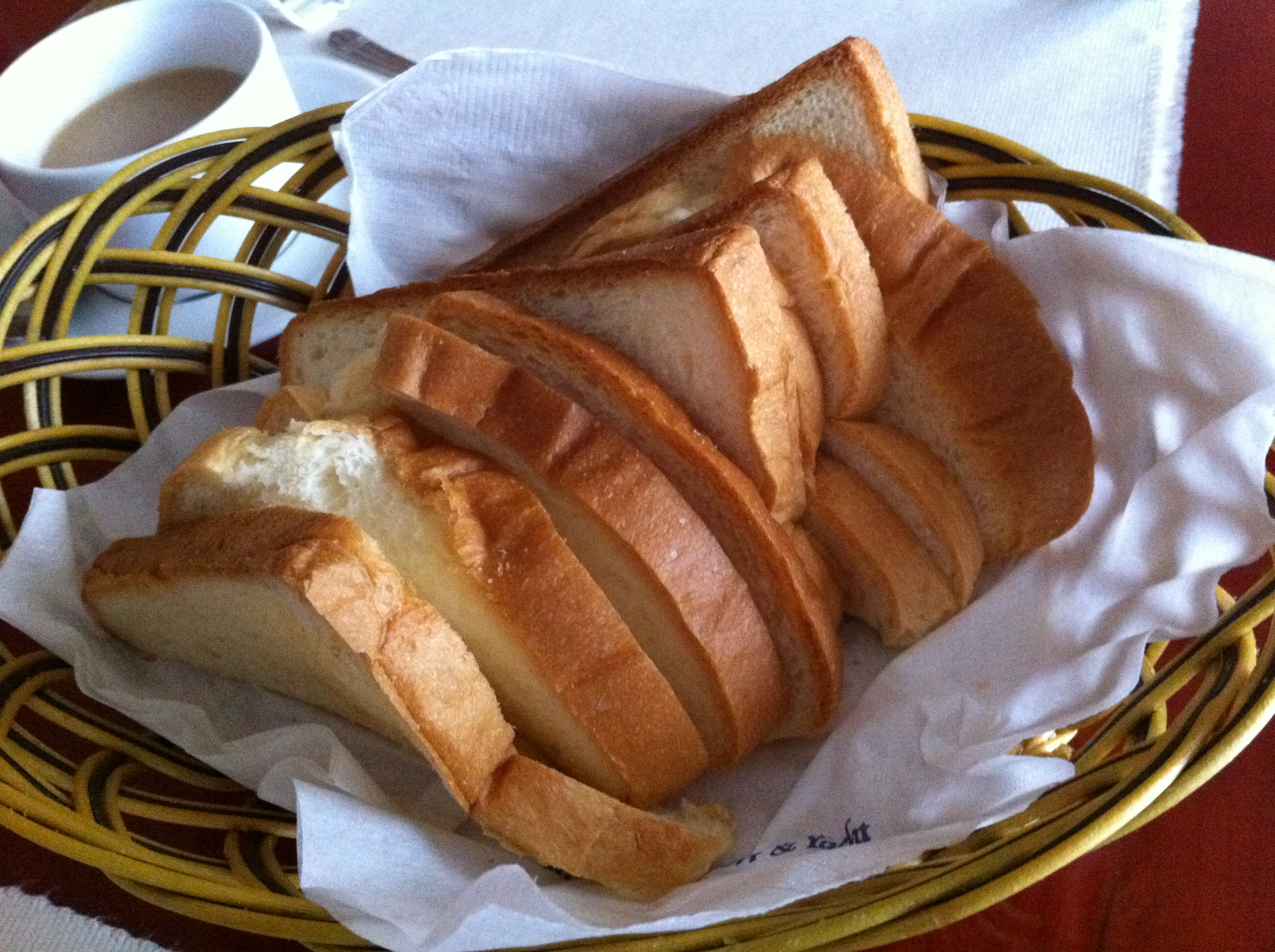 SK Korea tour July 2013